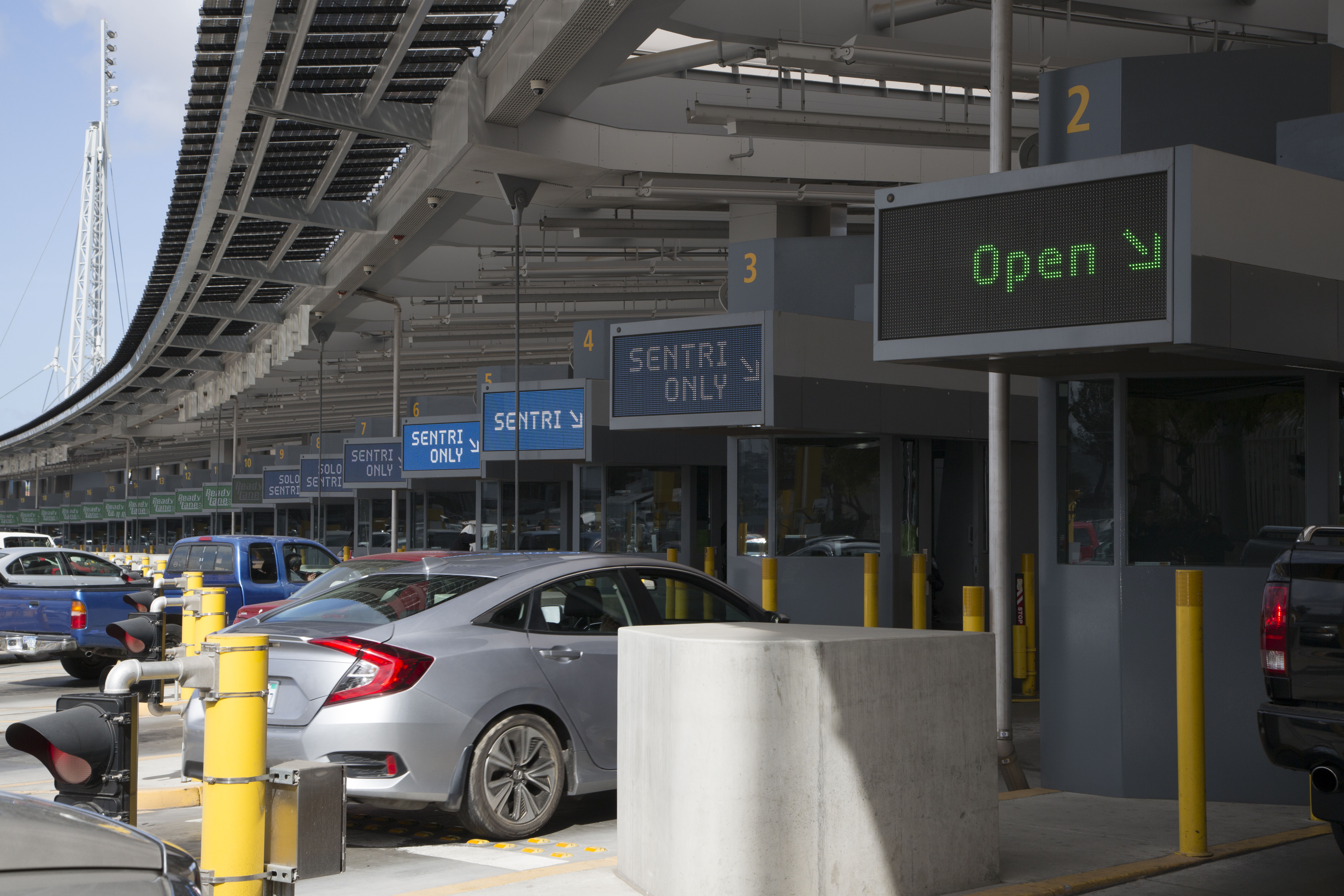 San Ysidro - CBP San Diego Operations - Vehicles cross the border at the San Ysidro Port of Entry with the use of Ready and SENTRI Lanes. Photographer: Donna Burton